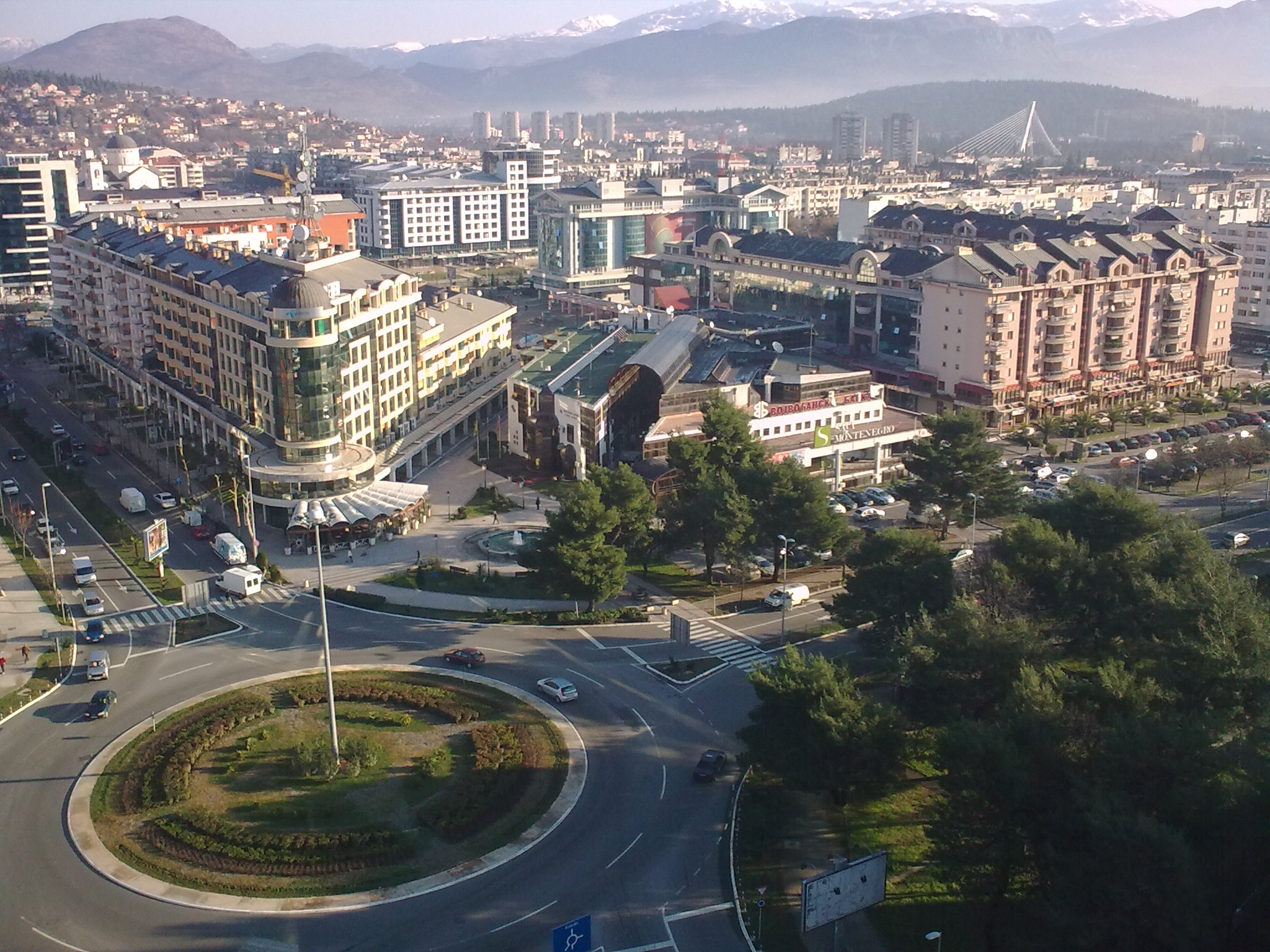 Podgorica, Montenegro, as seen from the top of Atlas Capital Center. With Square of St. Peter of Cetinje in front, the Cathedral of the Resurrection of Christ is visible in the upper left corner, as is Millenium Bridge in the upper right.